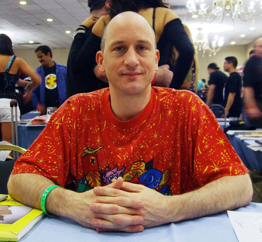 Comic book creator Mike Diana at the Big Apple Summer Sizzler in Manhattan, June 13, 2009.